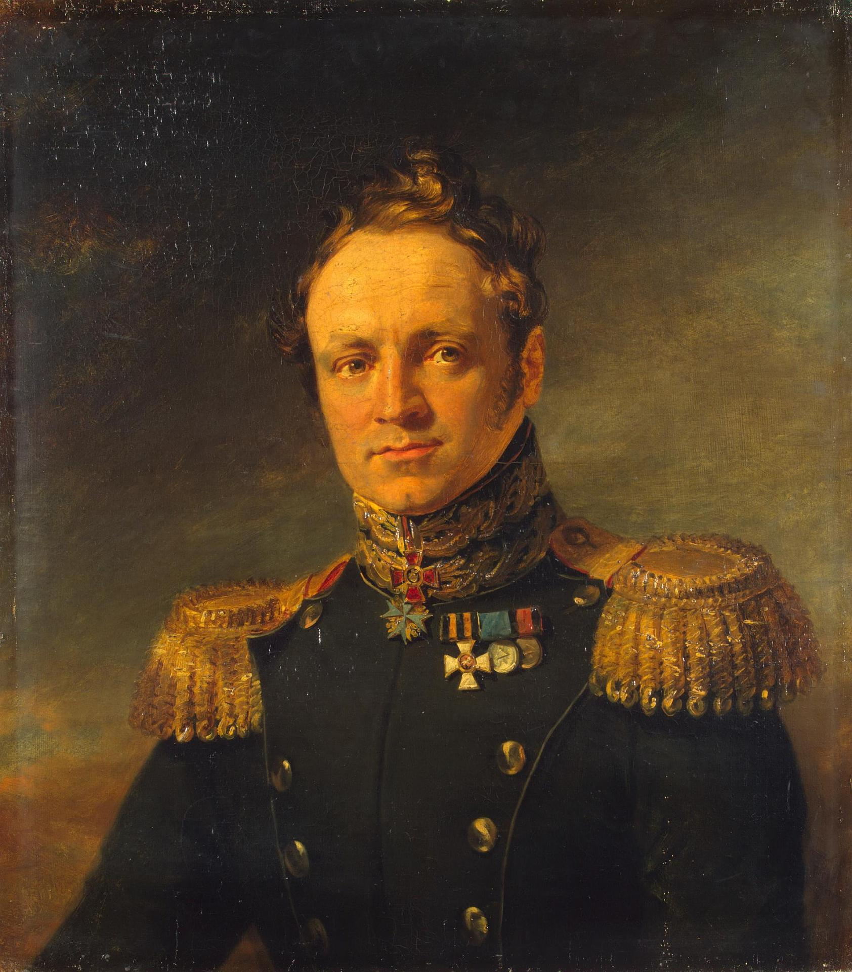 Yevgeny Alexandrovich Golovin (1782 – 1858) Russian general